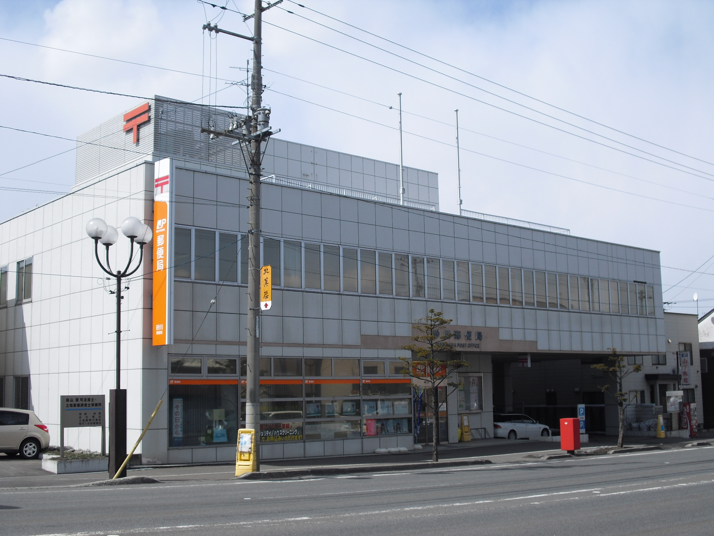 Sunagawa post office